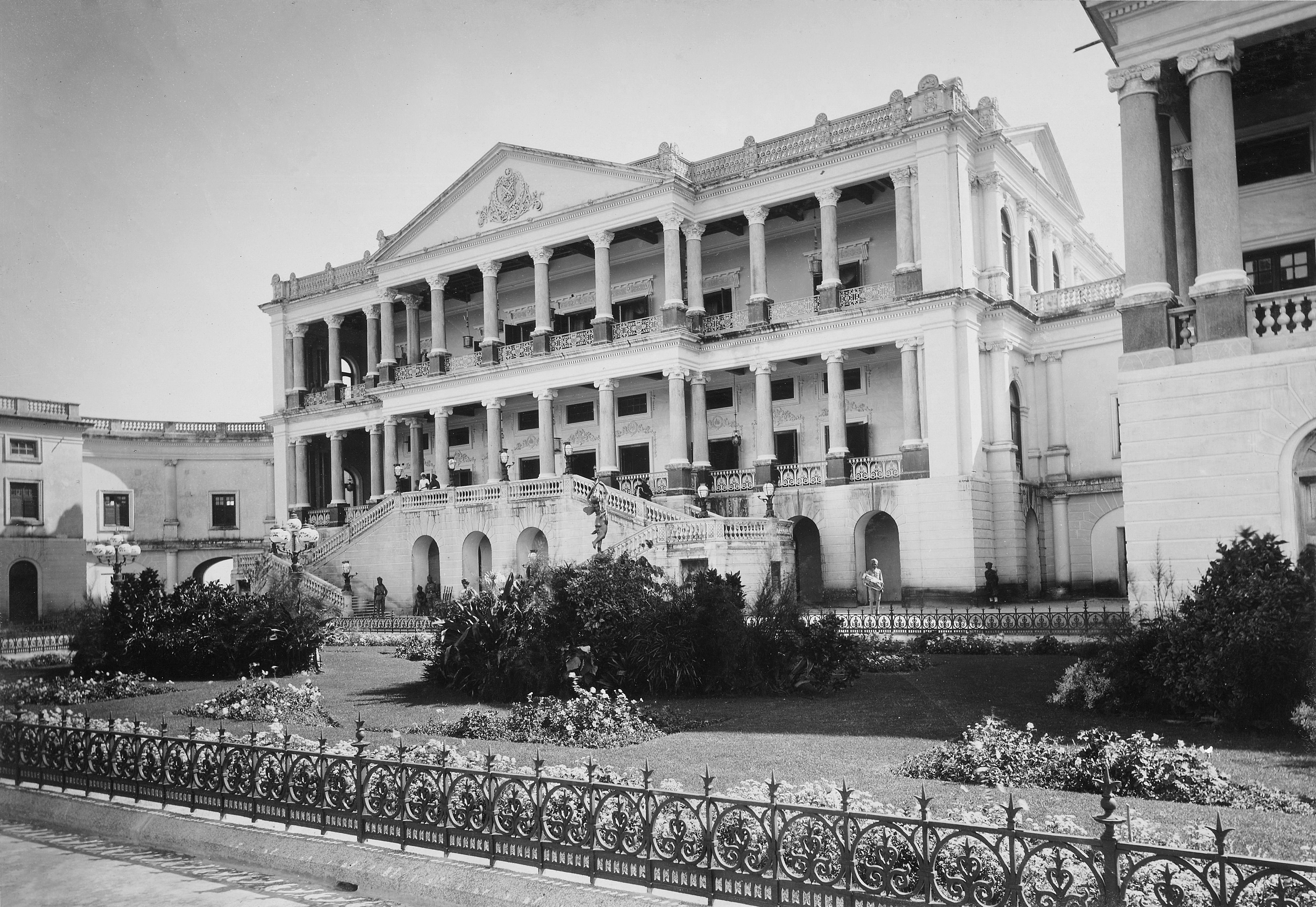 Falaknuma Palace, Hyderabad.The palace was designed in 1872 by an English architect as the private residence of a rich Muslim grandee but in 1897 was purchased for use as a guest house by the Nizam